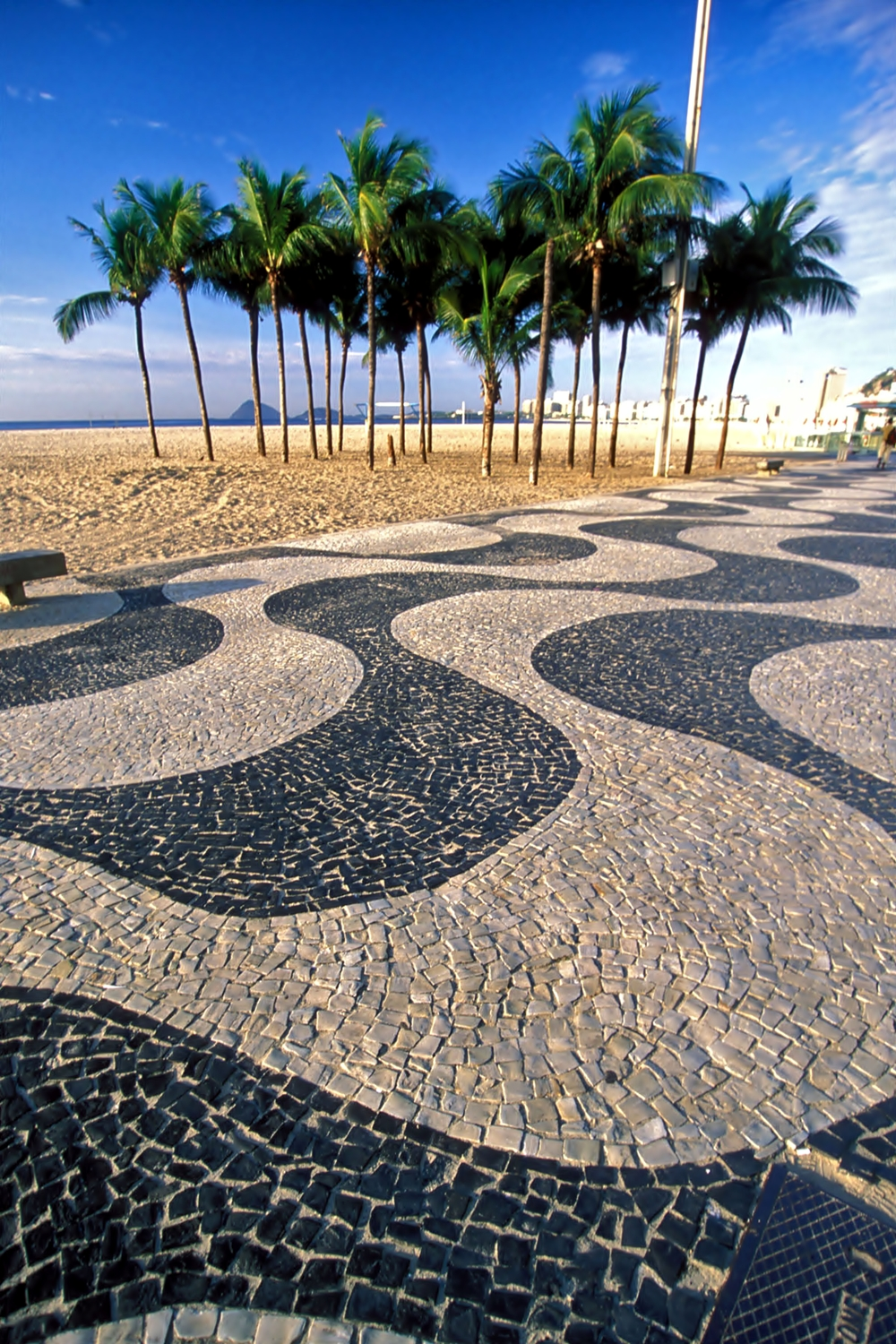 The pavement of Copacabana Beach, Rio de Janeiro, Brazil.